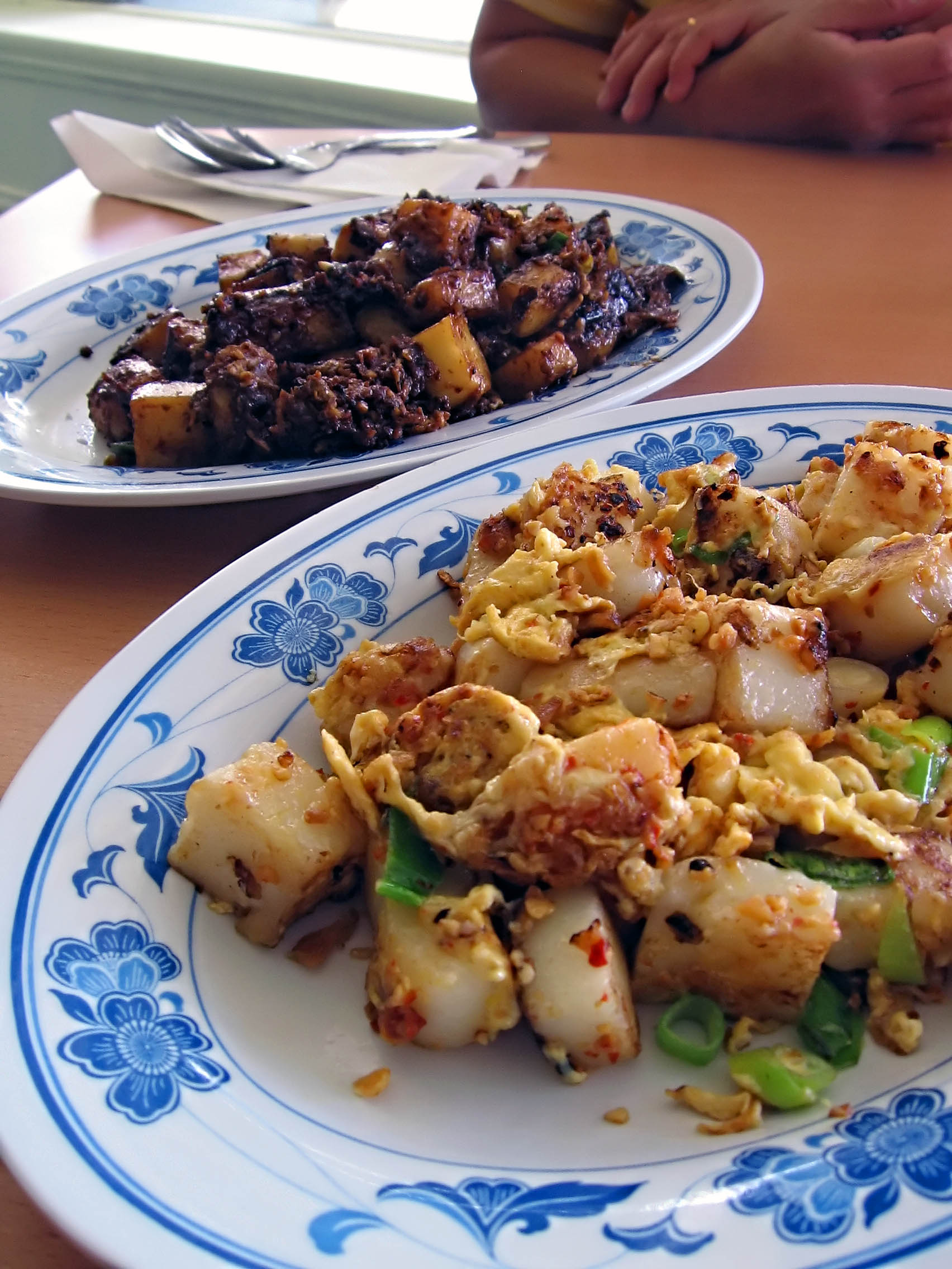 Chai tow kway is yet another Singaporean/Malaysian dish. It's actually carrot cake that is diced up and fried with an egg mixture. The two types are the black (shown at the back, fried with soya sauce, and a bit on the sweetish side) and white (no soya sauce, and more on the salty side. This dish can be found in many places in Perth. Bân-lâm-gú: Sin-ka-pho kah Má-lâi-se-a ê tshài-thâu-kué kā tshiat sè tè. Lâm nn̄g lo̍k -khì tsian kuè, tsò tsi̍t puânn tshài. Tsit nn̄g puânn kah oo-sik ê sī ū lâm tāu-iû. Tsia̍h khí--lâi kah tinn. Kah pe̍h-sik ê bô lâm tāu-iû. Tsia̍h khí--lâi kah kiâm. Tsit-tsióng tsò-huat tī Perth ê tsiânn-tsē sóo-tsāi lóng khuànn ē tio̍h. 新加坡佮馬來西亞的菜頭粿共切細塊，淋卵落去煎過，做一盤菜，這兩盤較烏色的是有淋豆油，食起來較甜，較白色的無淋豆油，食起來較鹹。這種做法佇珀斯(Perth)的誠濟所在攏看會著。